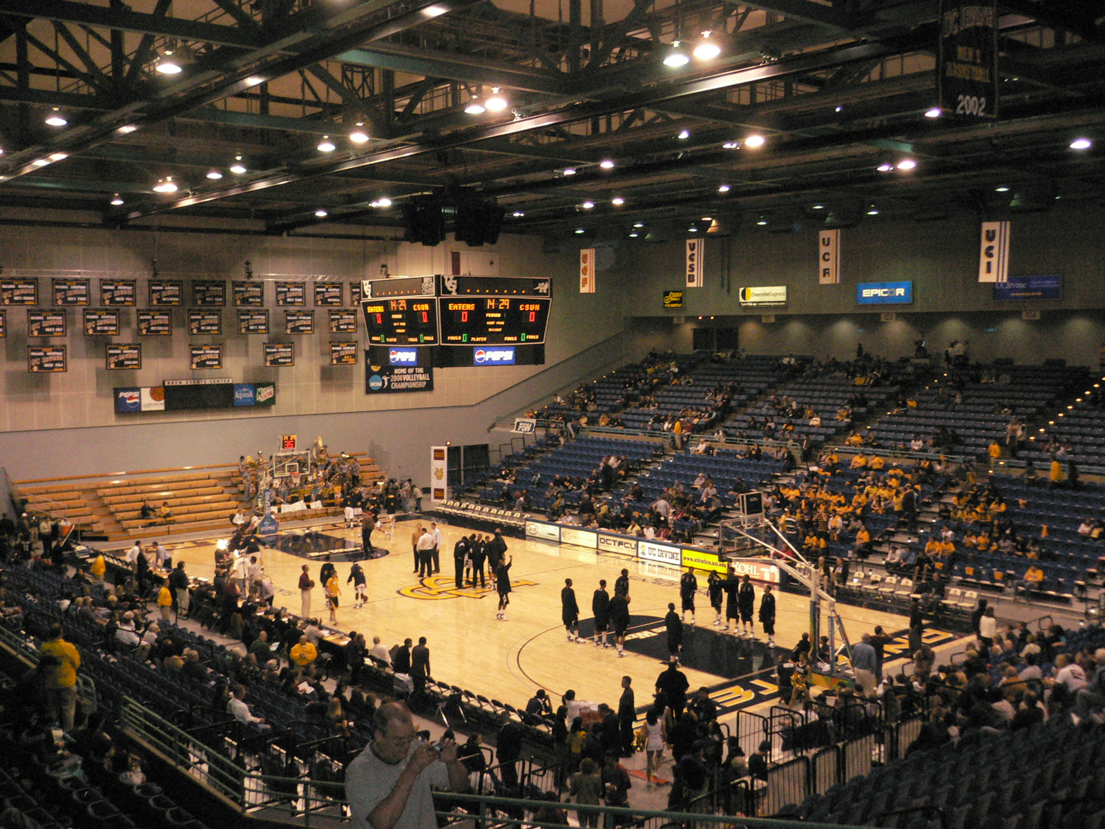 The court before a basketball game between UC Irvine and CSU Northridge